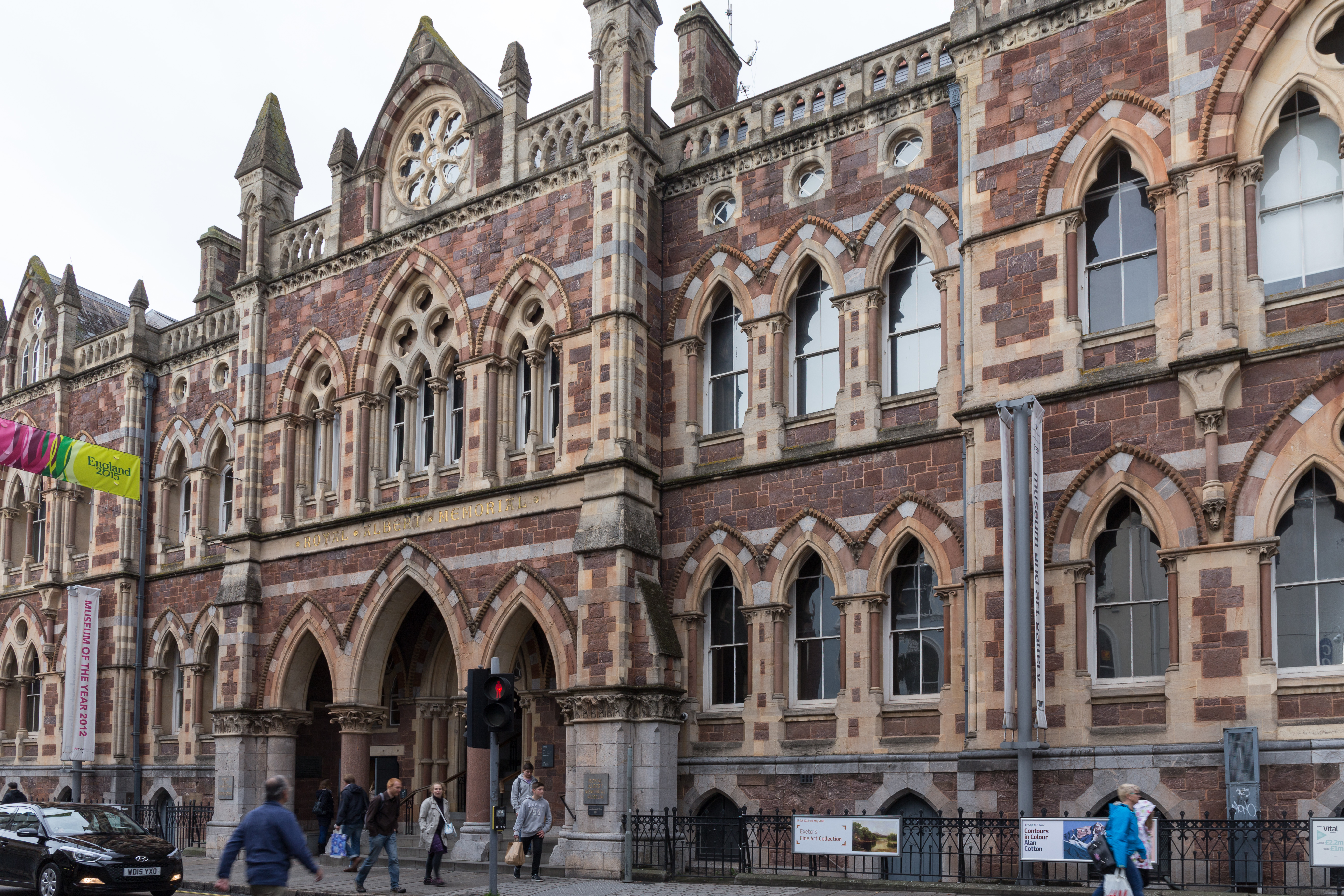 Royal Albert Memorial Museum in Exeter.